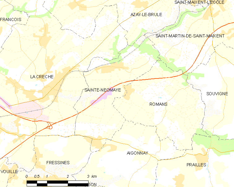 Map of French municipality Sainte-Néomaye